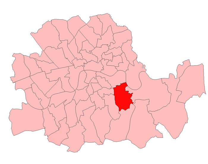 A map of Deptford constituency within the London County Council area, as it existed from 1918 to 1949.